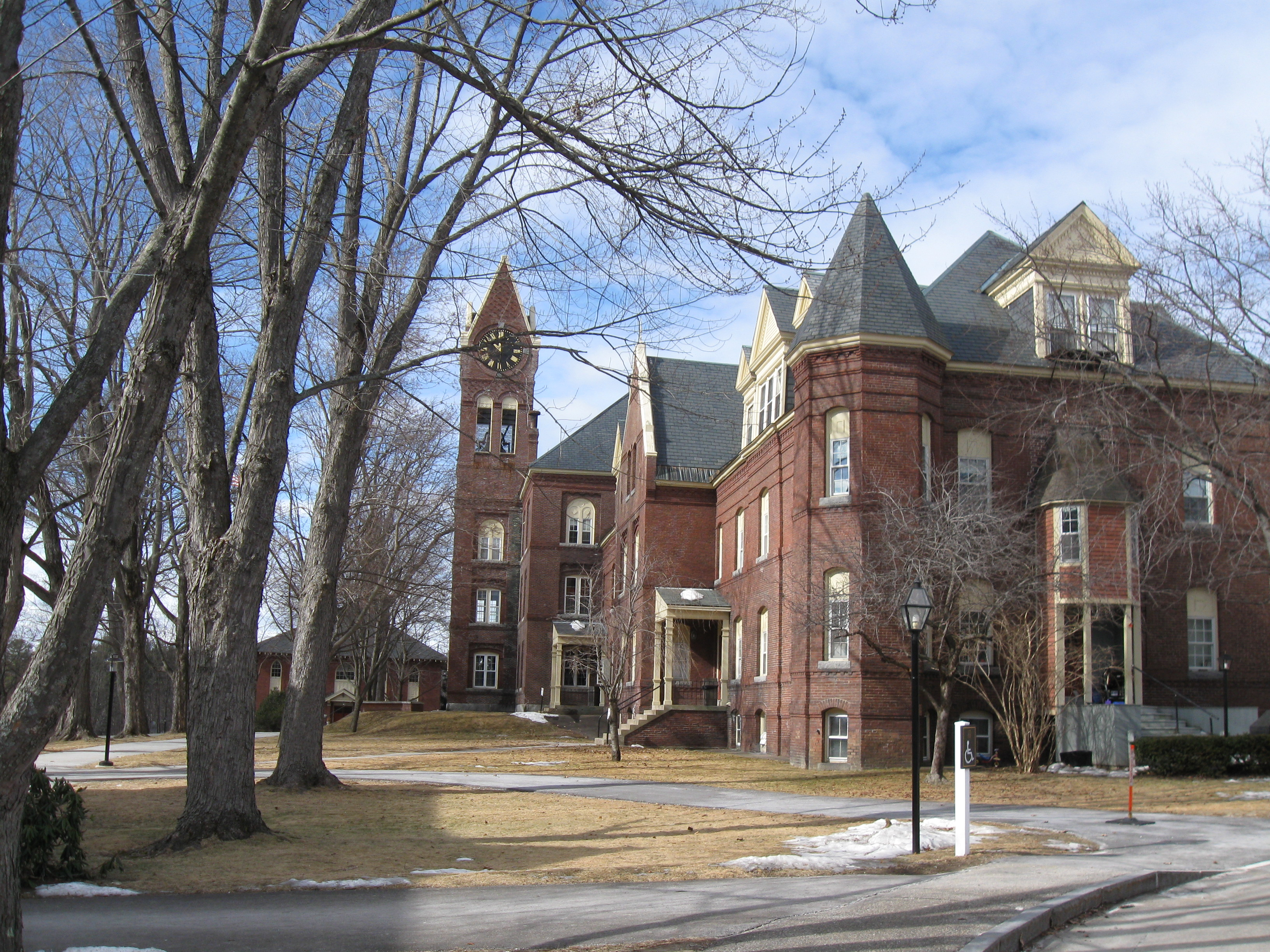 Tilton School in Tilton, New Hampshire. Photo by Ken Gallager, February 15, 2010.